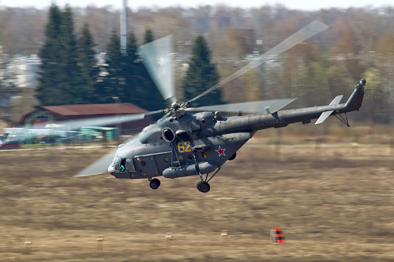 Russian Air Force Mil Mi-8MTV-5